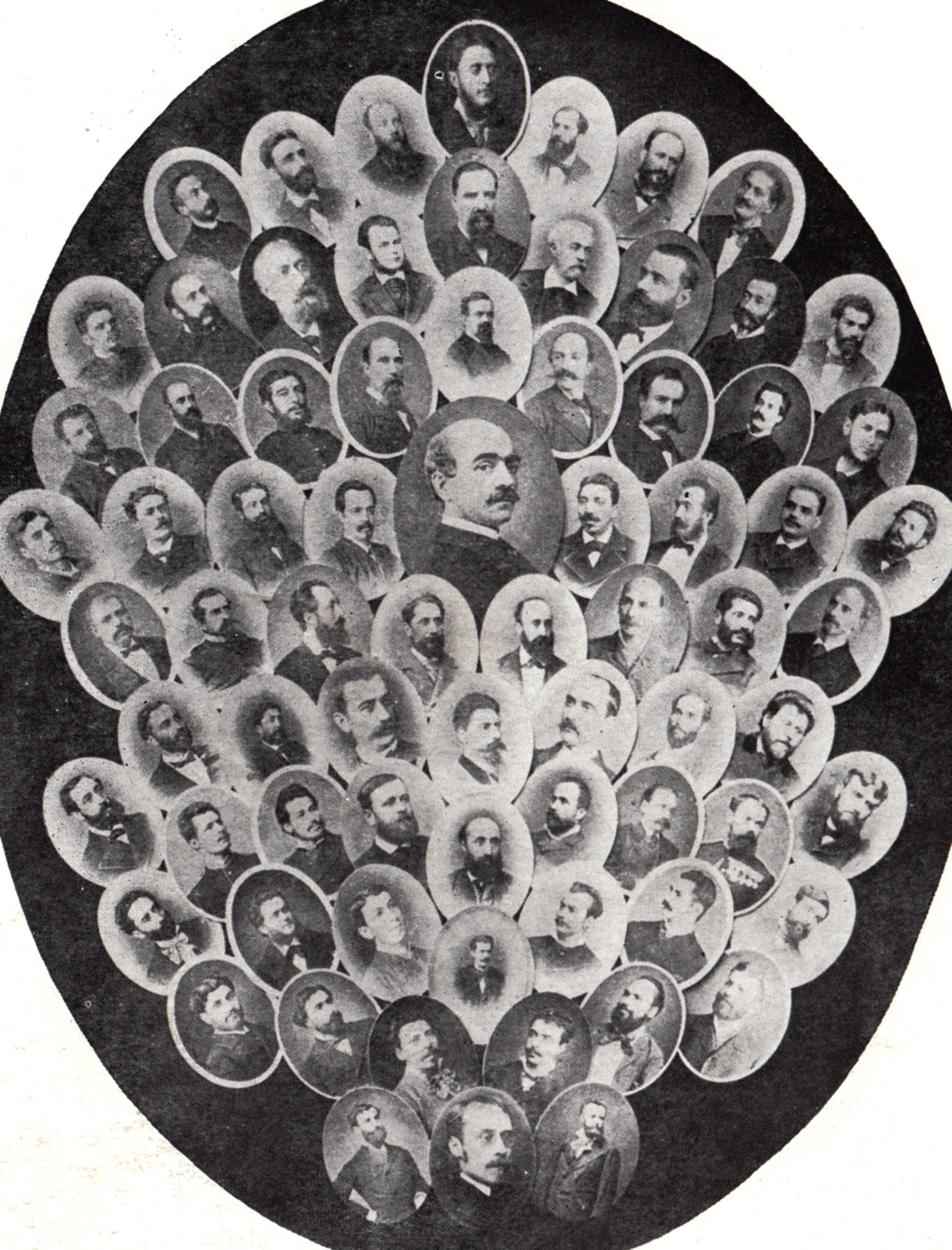 Collective portrait of Junimea, a Romanian literary and political club (at the time relocated to Bucharest). Pictured, left to right: (1st row) Nicolae Beldiceanu, Samson Bodnărescu, Teodor Nica, Gheorghe Roiu, Mihail Christodulo [Cerkez], Victor Castan[o], Mihail Gheorghiu; (2nd row) Constantin Meissner, Ion Dospinescu, Alexandru G. Suţu, Ştefan Vârgolici, Vasile Burlă, Anton Naum, Gh. Racoviţă, Ioan Buiucliu, Abgar Buiucliu; (3rd row) Teodor T. Burada, Constantin Leonardescu, Gheorghe Bengescu [Dabija], Theodor Rosetti, Titu Maiorescu, Petre P. Carp, Ioan Mire Melik, Mihai Eminescu, D. C. Ollănescu-Ascanio; (4th row) Nicolae Gabrielescu, Ion Luca Caragiale, Al. Farra, Vasile Pogor, Vasile Alecsandri, Iacob Negruzzi, Emil Max, Gheorghe Bejan, Ioan Slavici; (5th row) Ioan D. Caragiani, Mihail Cerchez, Nicolae Mandrea, Nicolae Gane, Neculai Culianu, Ioan Ianov, Grigore Buiucliu, Nicu Burghele; (6th row) Constantin Constantiniu, Leon Negruzzi, Gheorghe Capşa, Dumitru Rosetti [Tescanu], Ştefan Nei, Pavel Paicu, Ion Creangă, Neculai Mihalcea; (7th row) Teodor Christodulo, Ioan Neniţescu, Miron Pompiliu, Alexandru Lambrior, Constantin Lepădatu, Gheorghe Schelitti, Theodor Şerbănescu; (8th row) Theodor Buiucliu, A. D. Xenopol, Petru Th. Missir, Aristide Peride, Alexandru Al. Beldiman, V. Cuciureanu, G. Zaharia; (9th row) Xenofon Gheorghiu, Valerian Ursian, Gheorghe Negruzzi, Alexandru I. Philippide, Constantin Dumitrescu, Ştefan Văleanu; (10th row) N. Volenti, Vasile Bossie (Bossy), Telemac Ciupercescu.